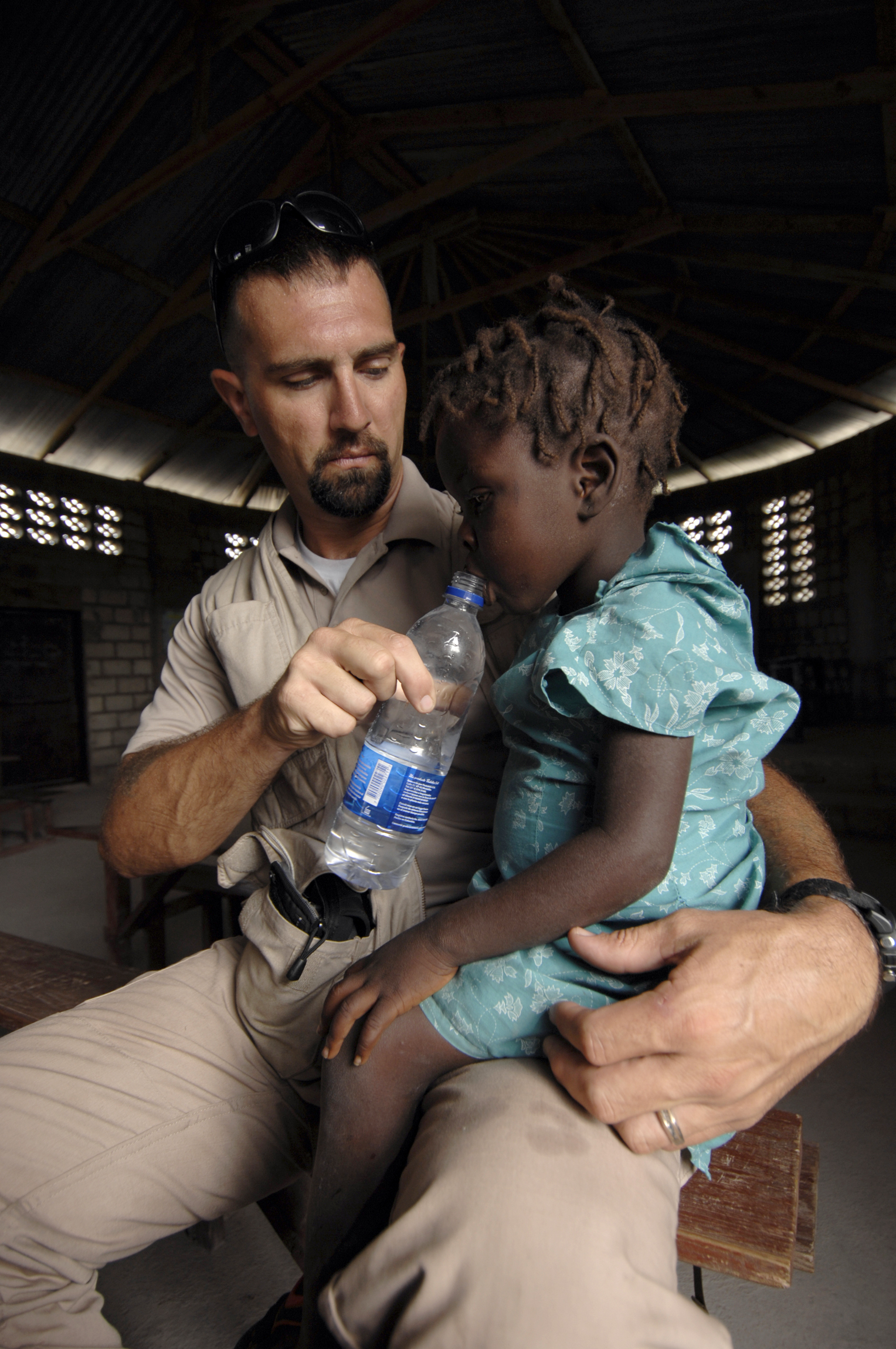 TERRE DE NEGRES, Haiti (Sept. 24, 2008) Naval Criminal Investigative Service Special Agent Jeremy Gouthier, assigned to the amphibious assault ship USS Kearsarge (LHD 3), gives a Haitian girl a drink of water during a medical assessment of a local village. Kearsarge has embarked personnel from all branches of the U.S. military and medical personnel from the Canadian and Brazilian armed forces, as well as health care professionals from the U.S. Public Health Service, Project HOPE and International Aid to conduct hurricane relief operations in Haiti. (U.S. Navy photo by Mass Communication Specialist 2nd Class Erik C. Barker/Released)